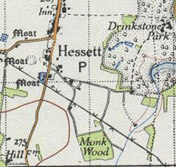 20th Century map of Hessett